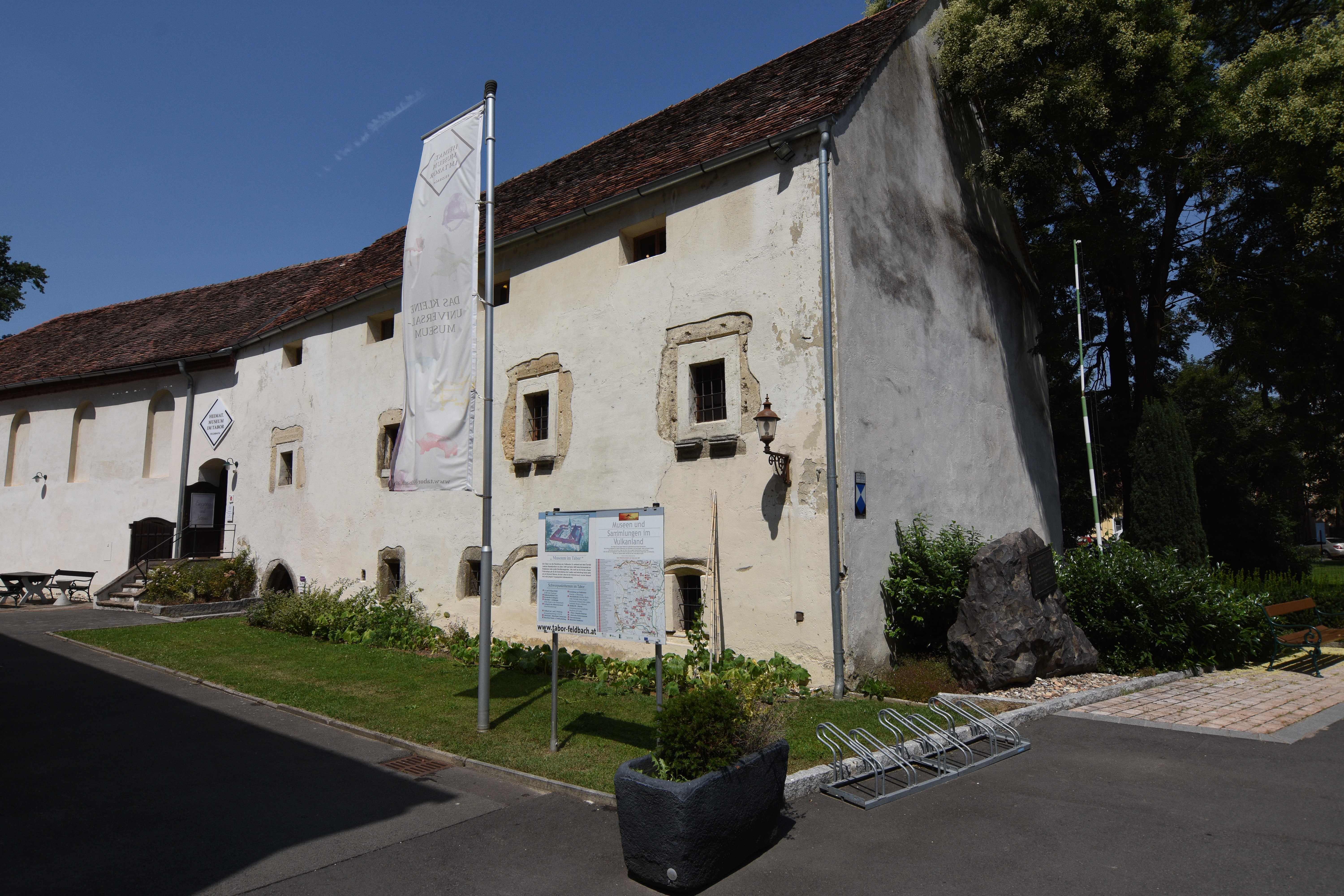 Tabor Feldbach Museum